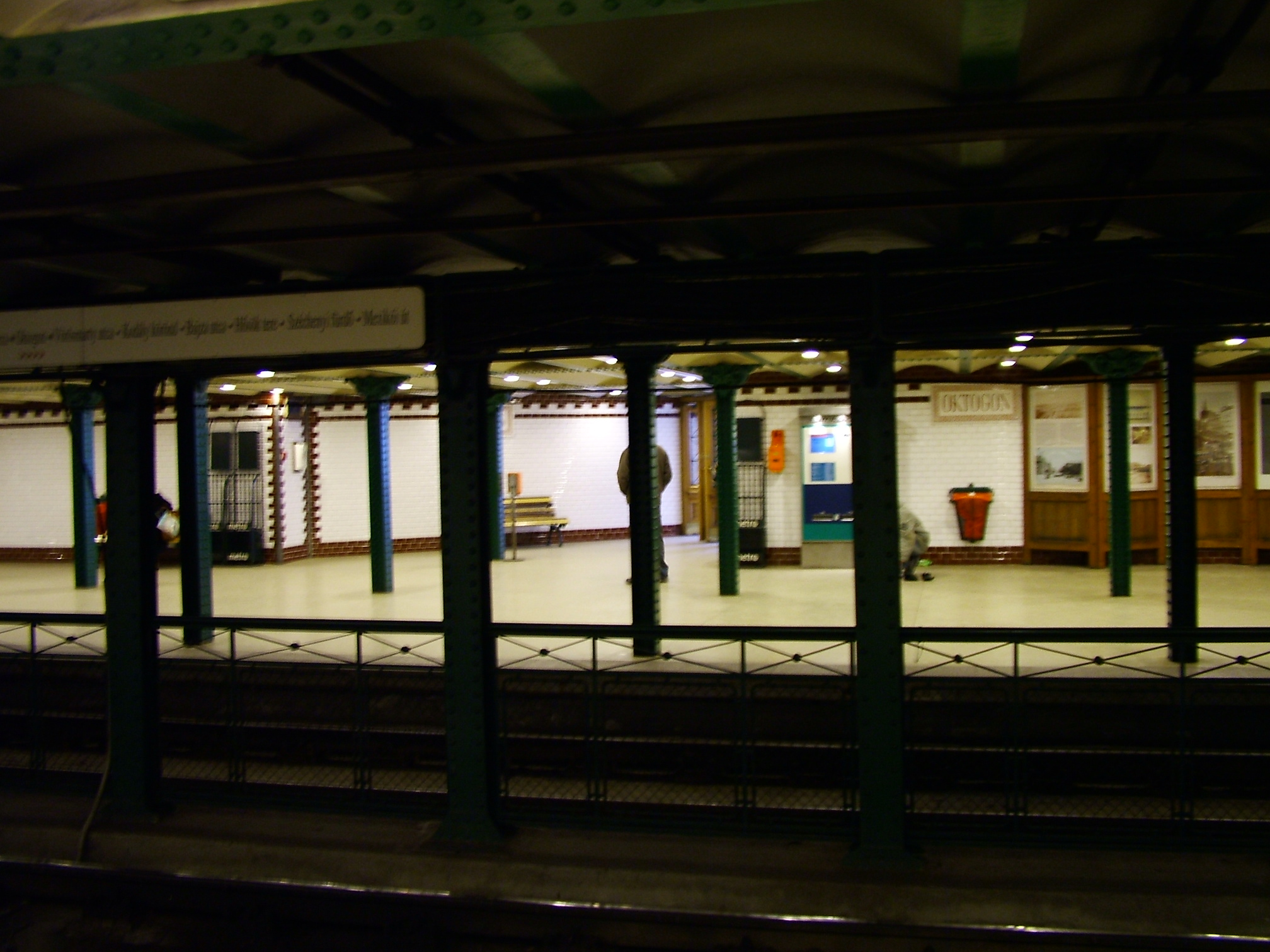 Oktogon station at Budapest Millennium Underground